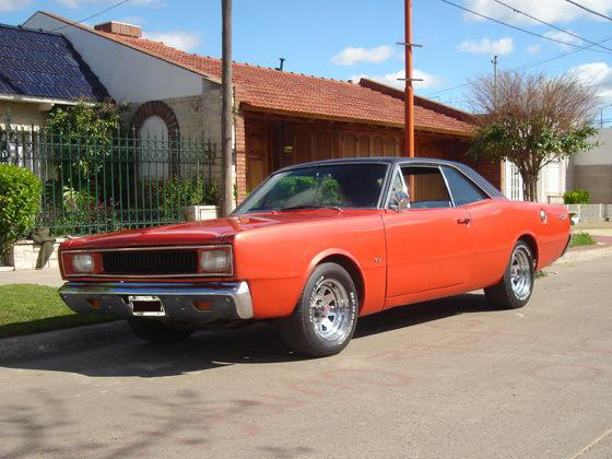 Argentinean Dodge Polara Coupe.